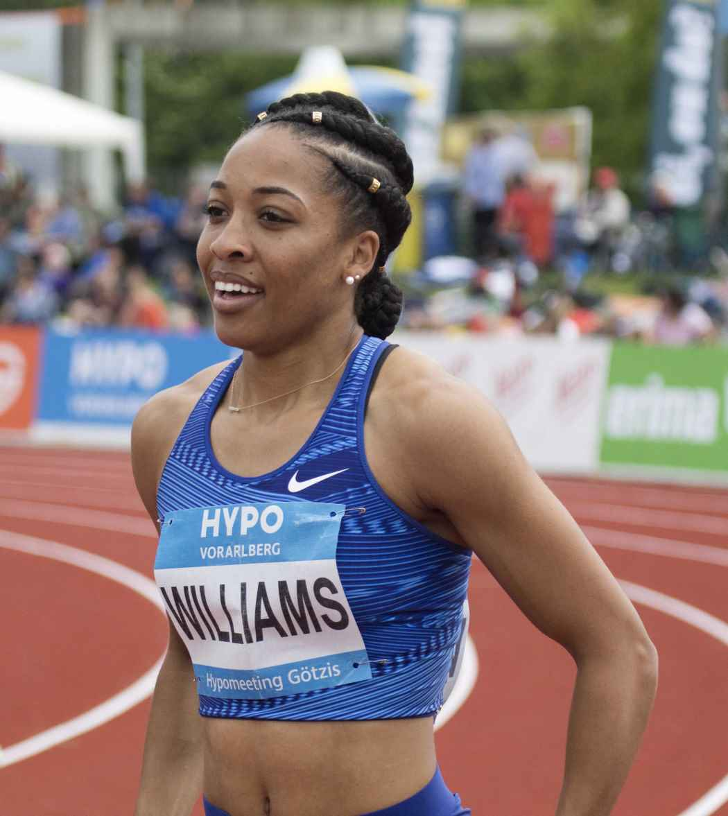 2019 Hypo-Meeting Götzis